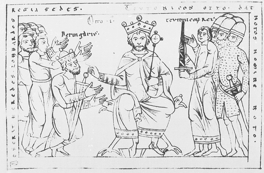 Otto I, Holy Roman Emperor's victory over Berengar, winning Italy, drawing in the Chronicle of Otto von Freising (Manuscriptum Mediolanense), Schäftlarn, before 1177